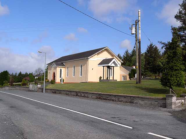 St Mary's Church, Drumreilly Catholic Church situated in the hamlet of Drumlea. Drumreilly is a very extensive parish; the Church of Ireland church for the parish lies 6 Km away H1912.